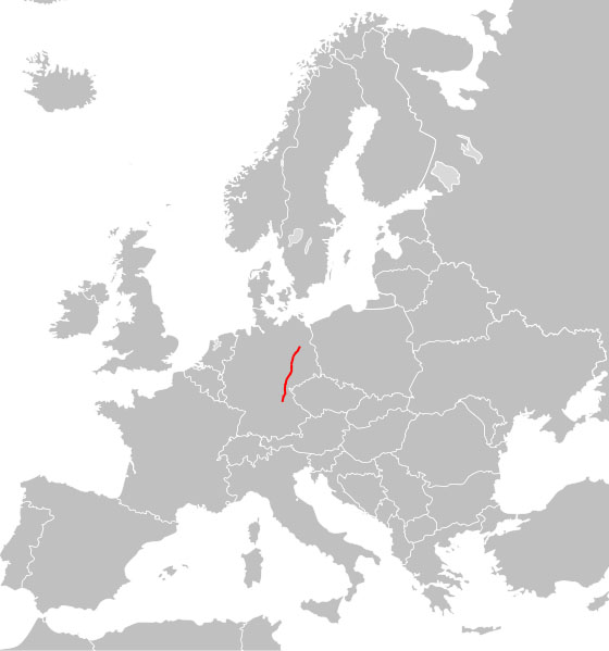 The European route 51